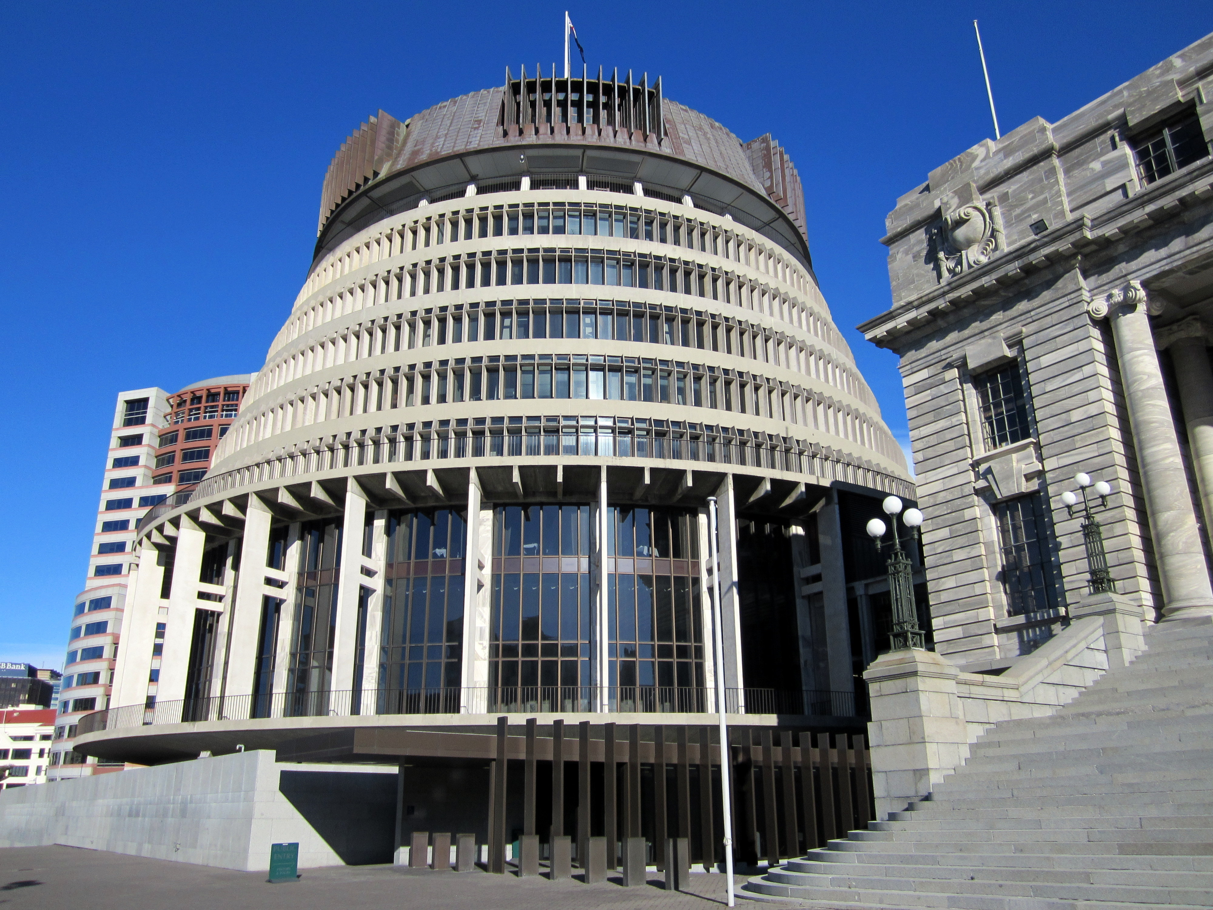 The Beehive viewed from the front of the NZ Parliament